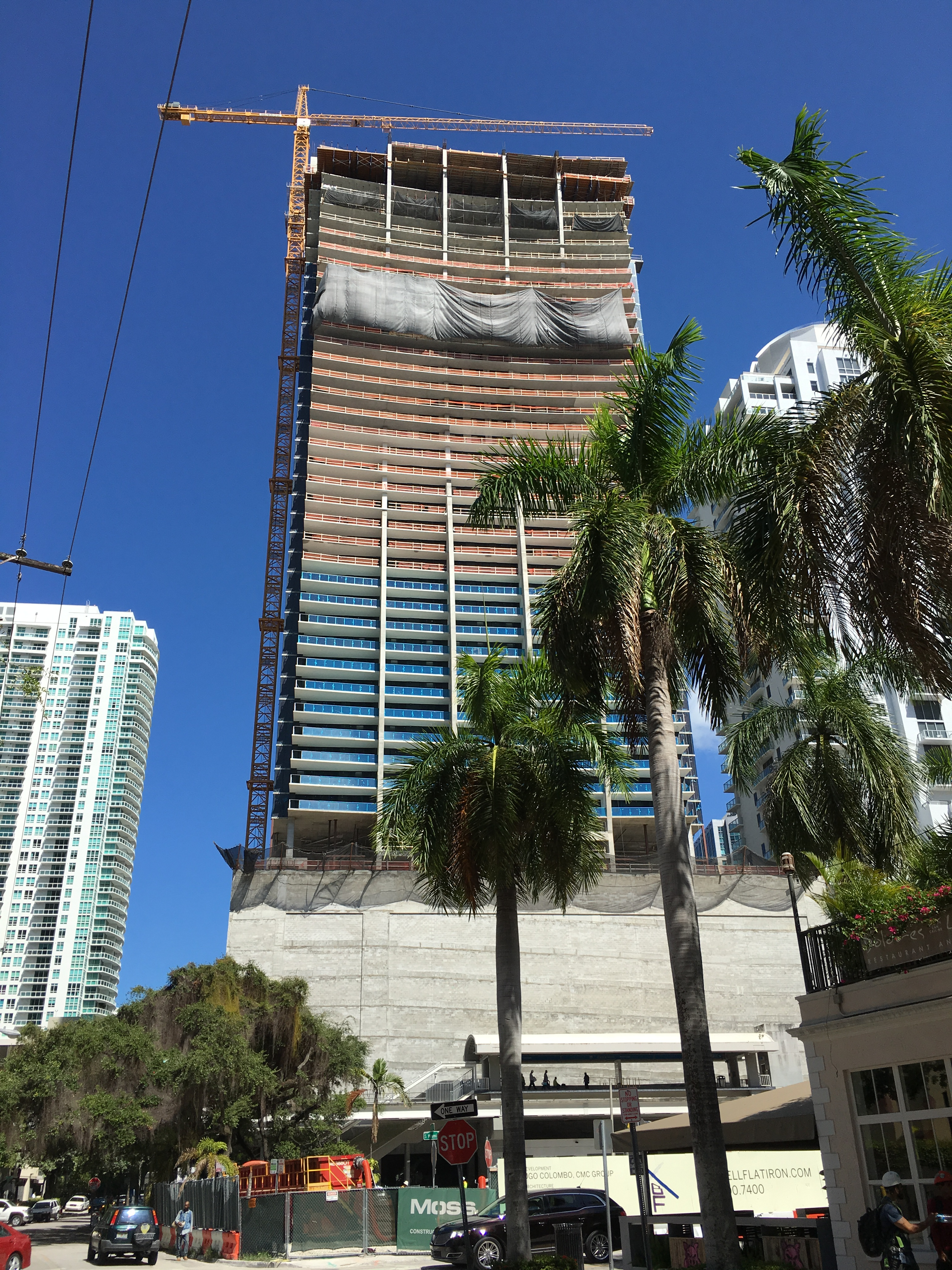 en:1010 Brickell construction, with Tenth Street station and Brickell Flatiron site in the foreground.